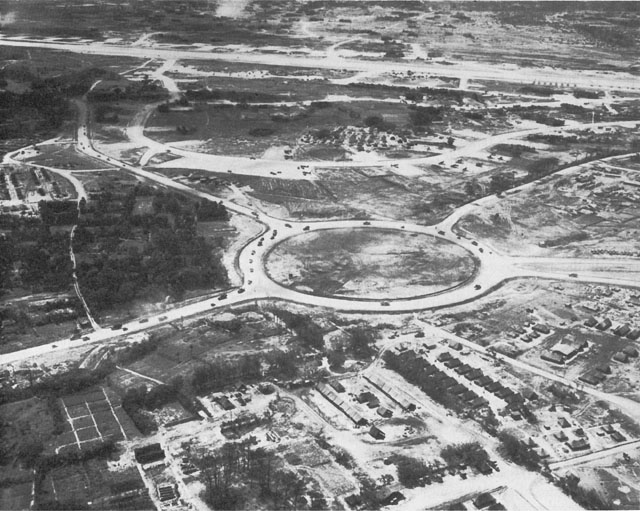 South of Kadena airfield handled as many as 20,000 vehicles a day by mid-August.